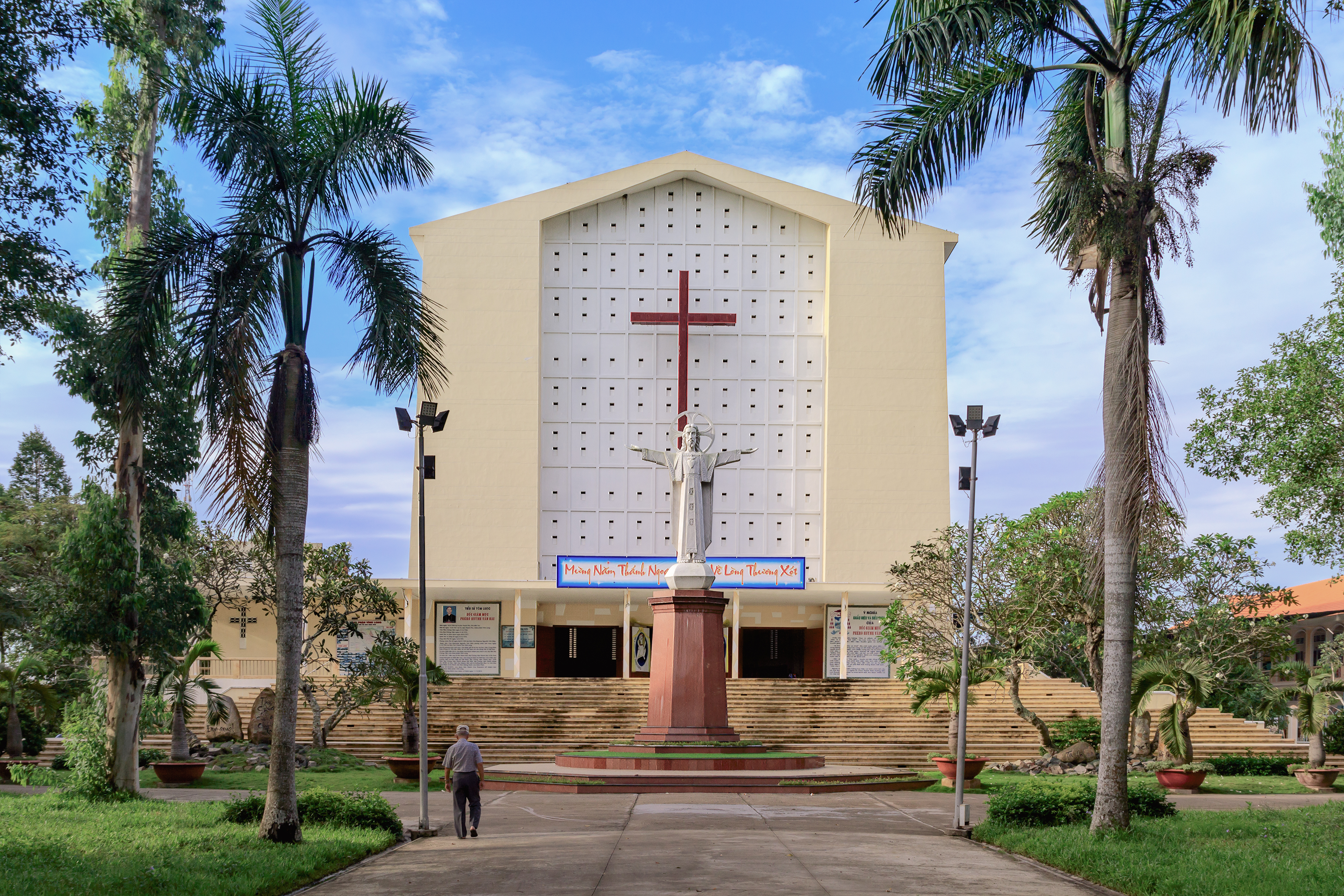 Vĩnh Long CathedralTiếng Việt: Nhà thờ Chính tòa Vĩnh Long, Việt Na